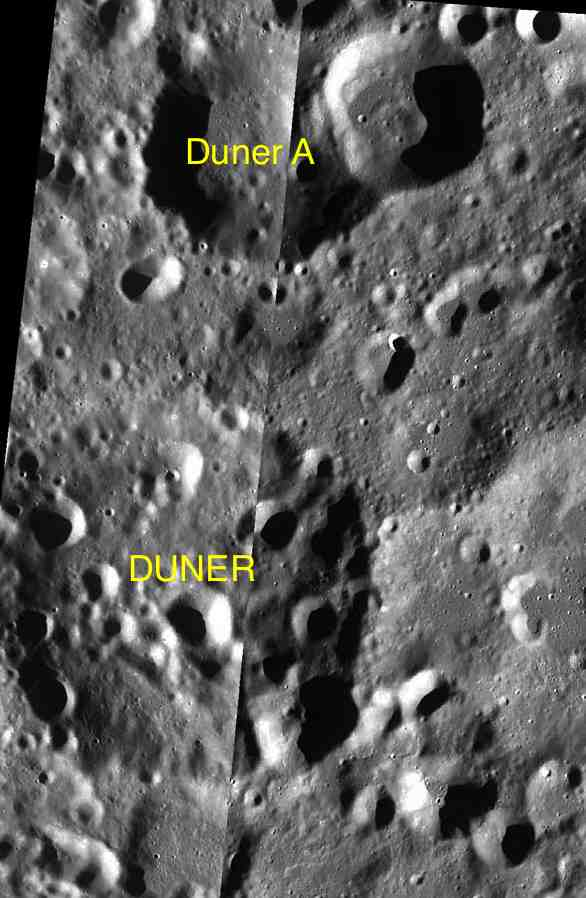 Part of the chart LAC-33 used for the presentation